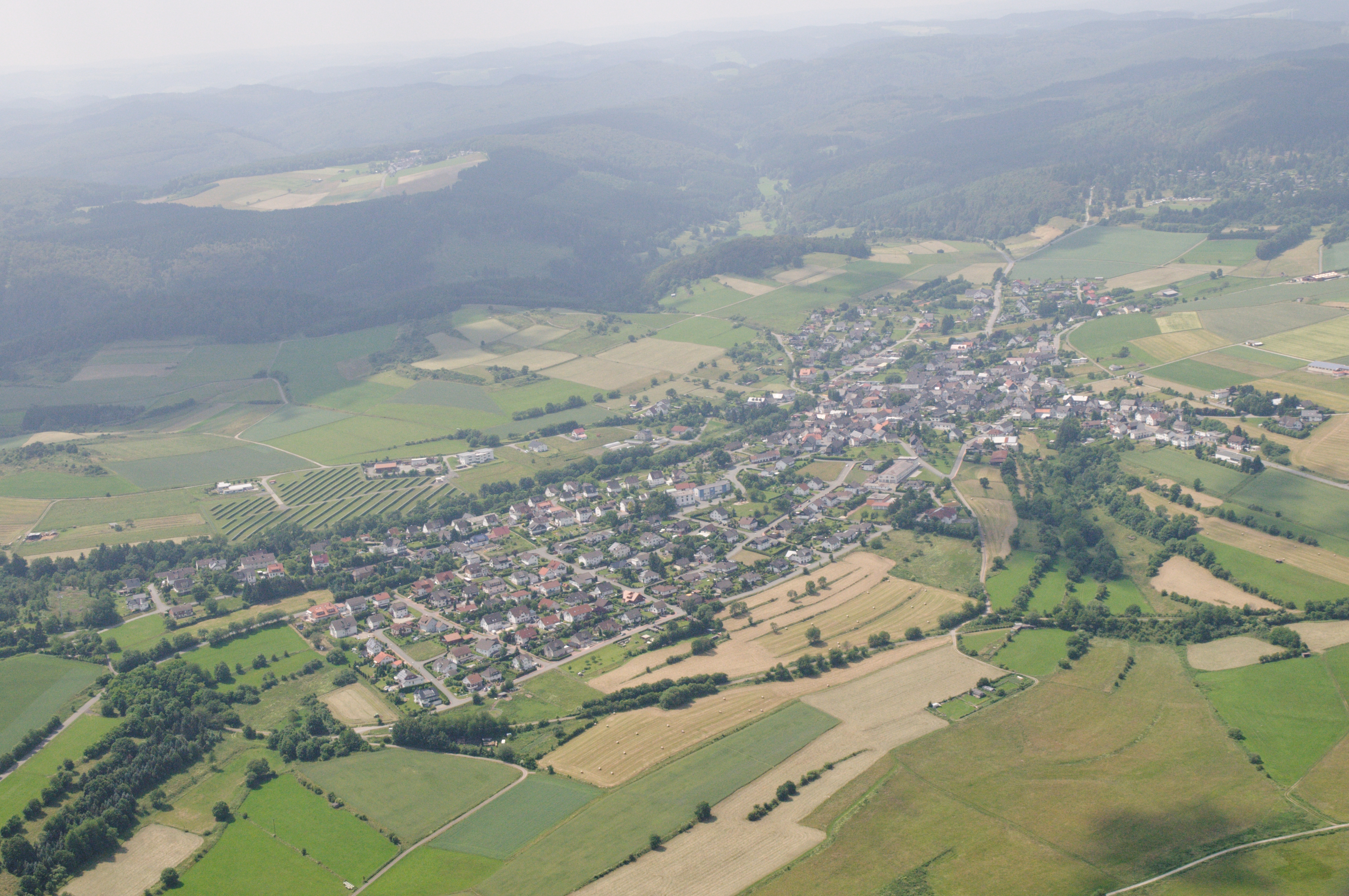 Fotoflug Sauerland-OstBromskirchen, Landkreis Waldeck-Frankenberg, Blickrichtung Nordwesten The making of this document was supported by the Community-Budget of Wikimedia Germany.